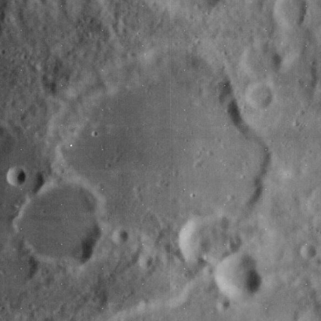 Schumacher crater, on the moon. Brightness and contrast adjusted from original.